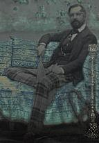 Hand-tinted daguerreotype of Charles Augustus Murray (1806–1895), taken at 107 Regent Street, London, where Antoine Claudet opened a neo-Renaissance "Temple to Photography" in 1851.